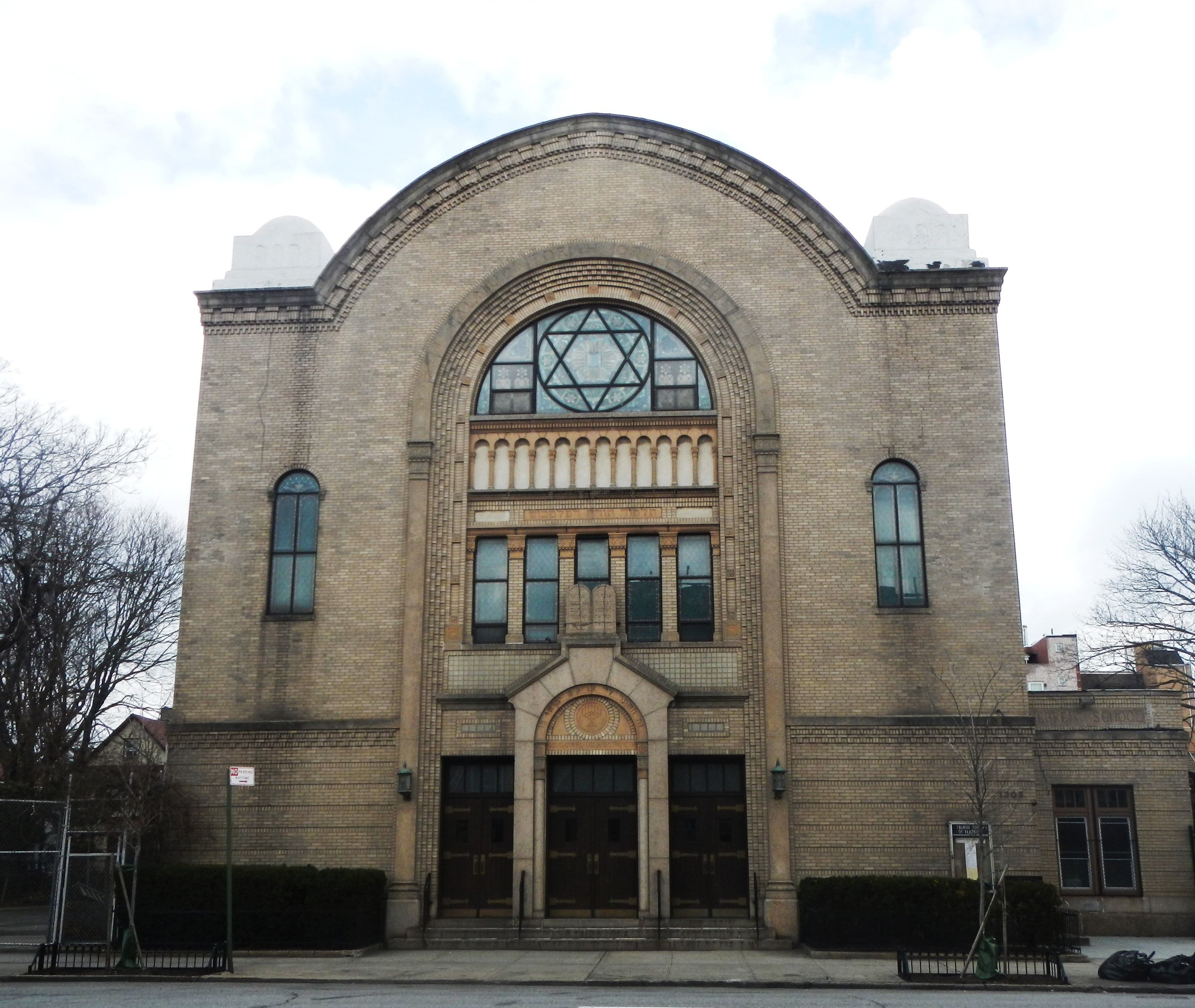 Looking east across Coney Island Avenue on a cloudy day.